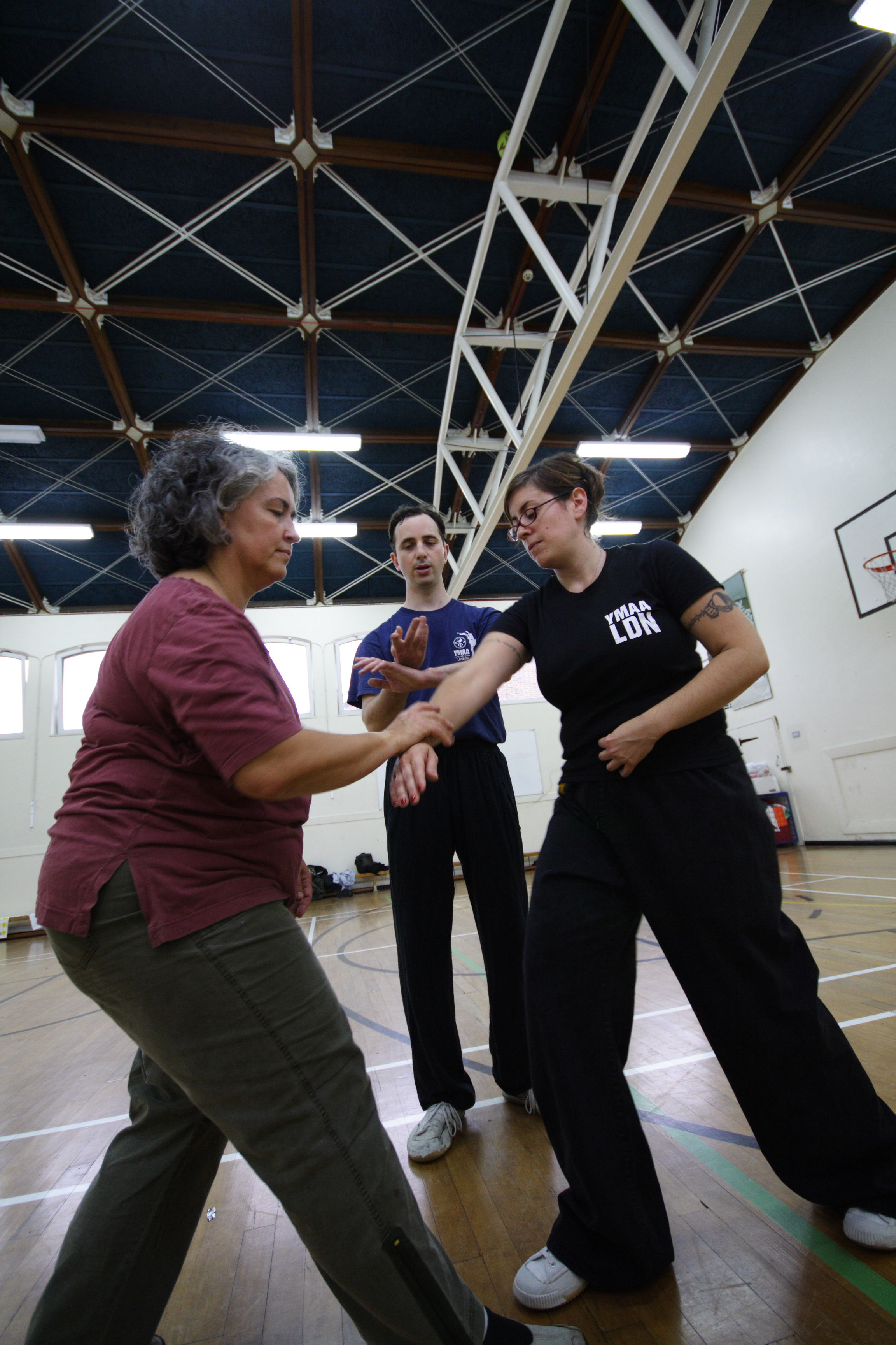 Pushing hands (tui shou), the partner exercise of tai chi.